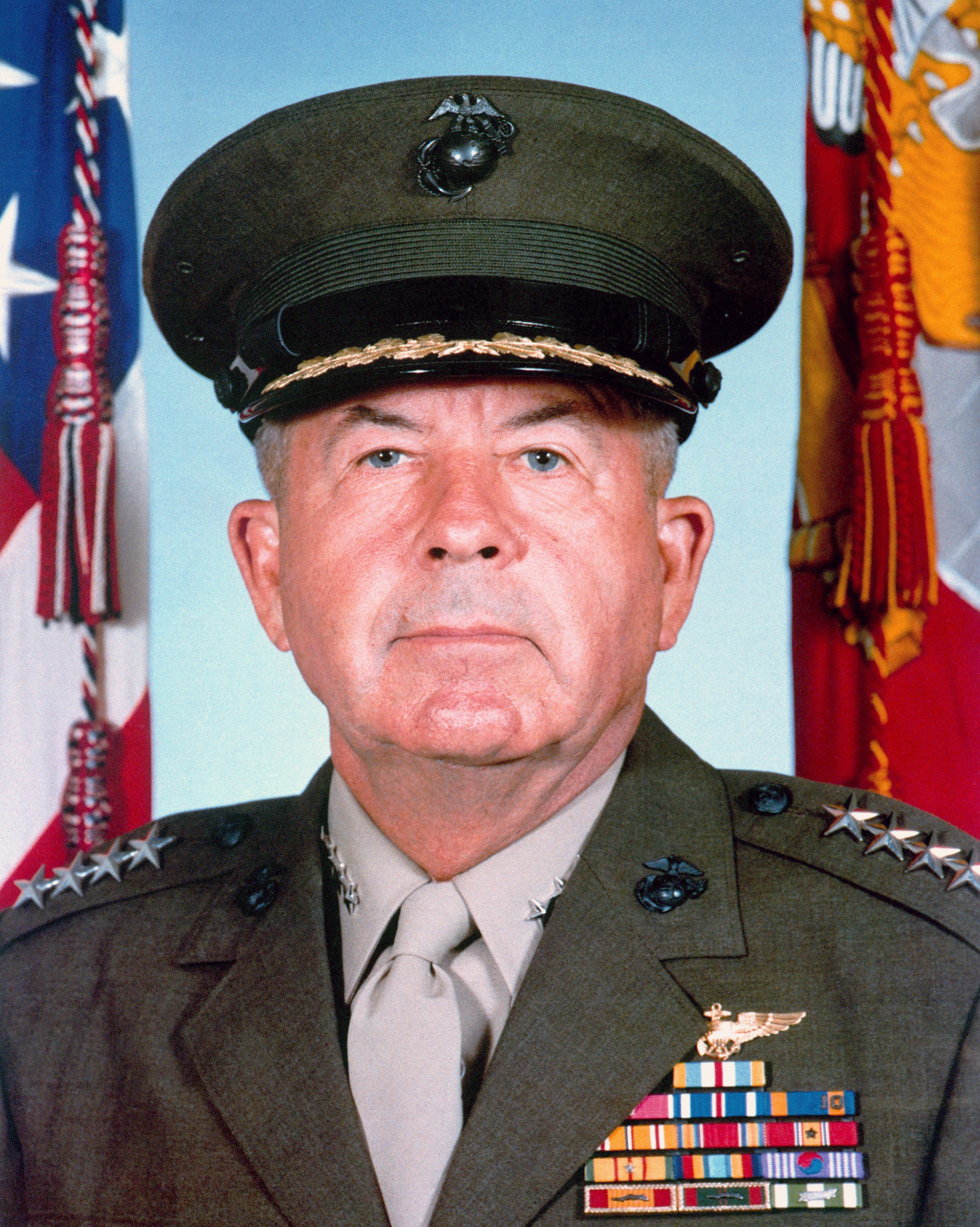 General John K. Davis, USMC; Assistant Commandant of the Marine Corps (1983-1986)